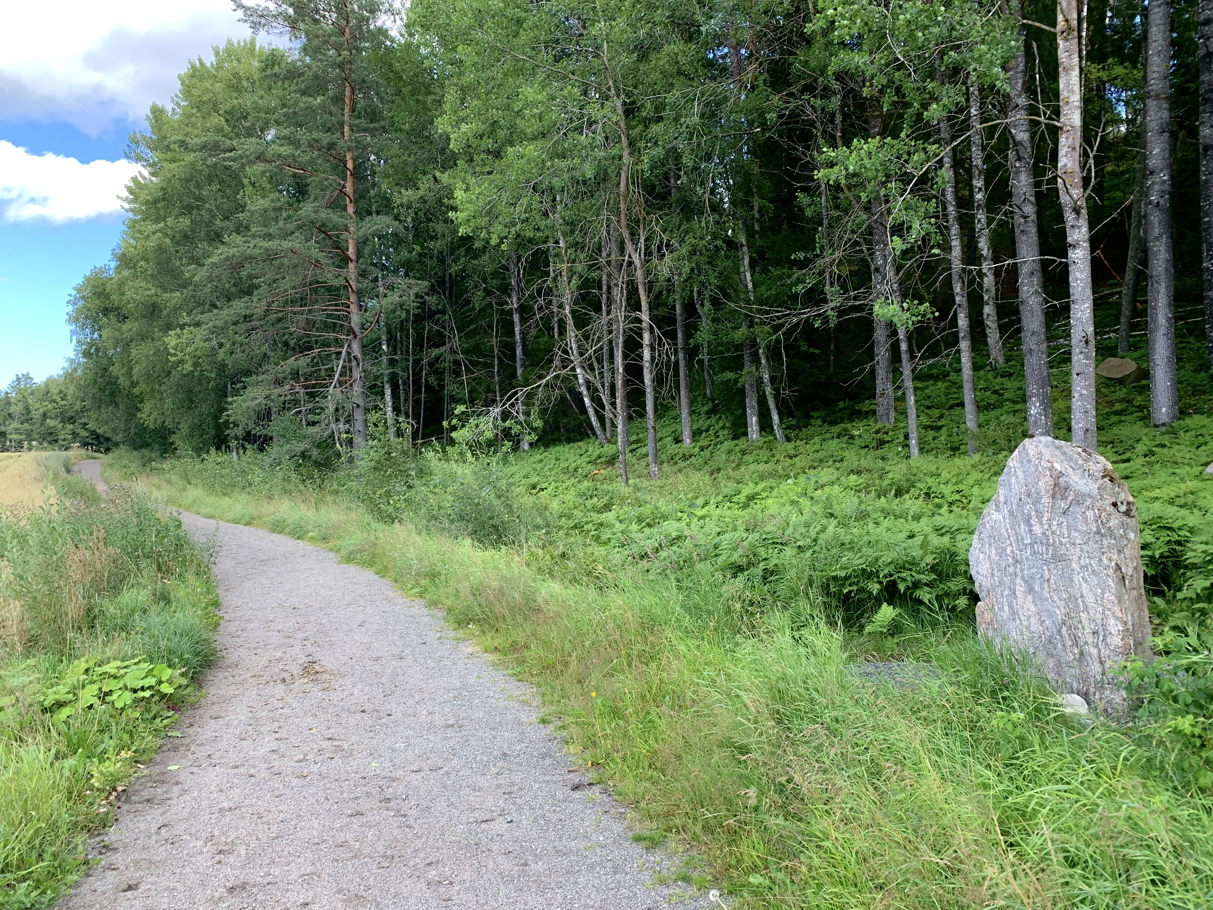 Swedish runestone Sö 264